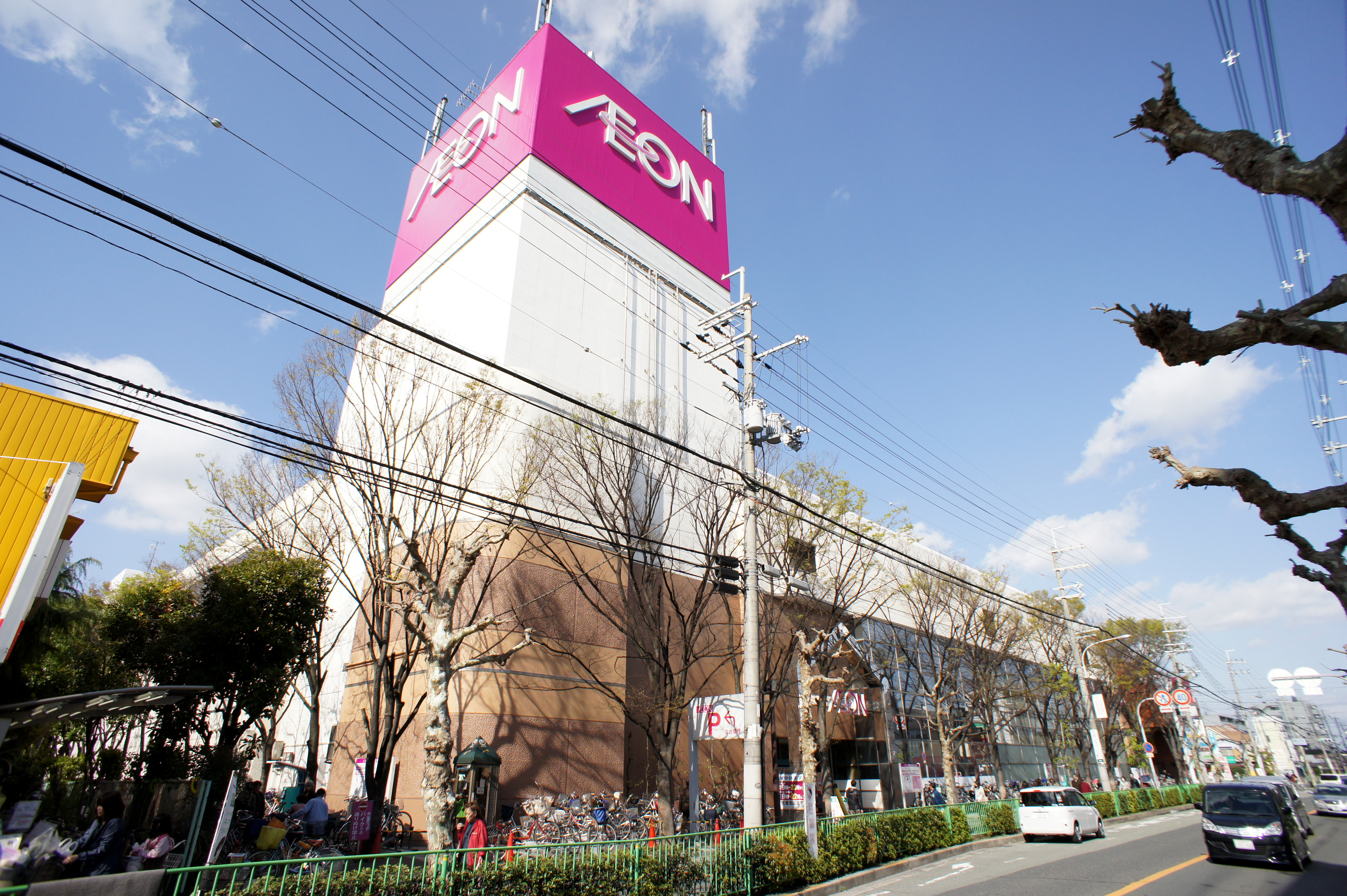 AEON Shin-Ibaraki, 18-1 Nakatsu-cho Ibarakishi-shi Osaka Japan.